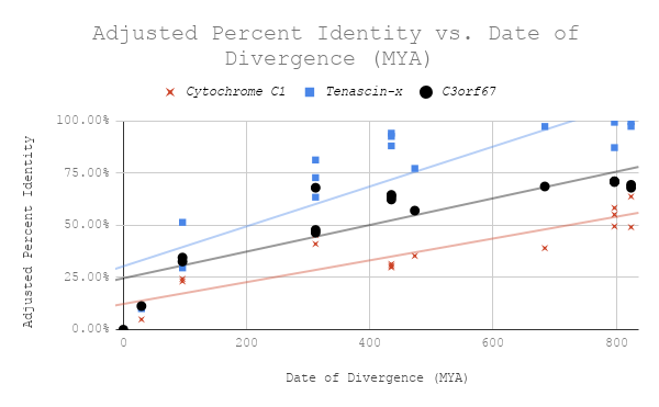 Mutation rate of C3orf67 compared to Cytochrome C1 and Tenascin-x.